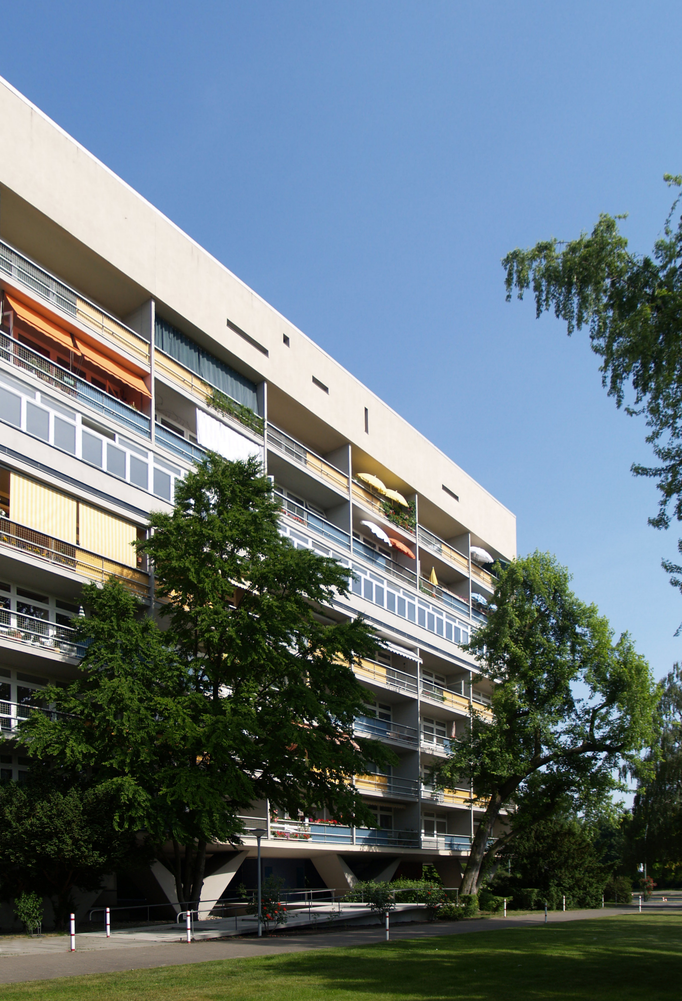 Interbau exhibition housing, Hansaviertel, Berlin 1956-1957. Architect: Oscar Niemeyer.